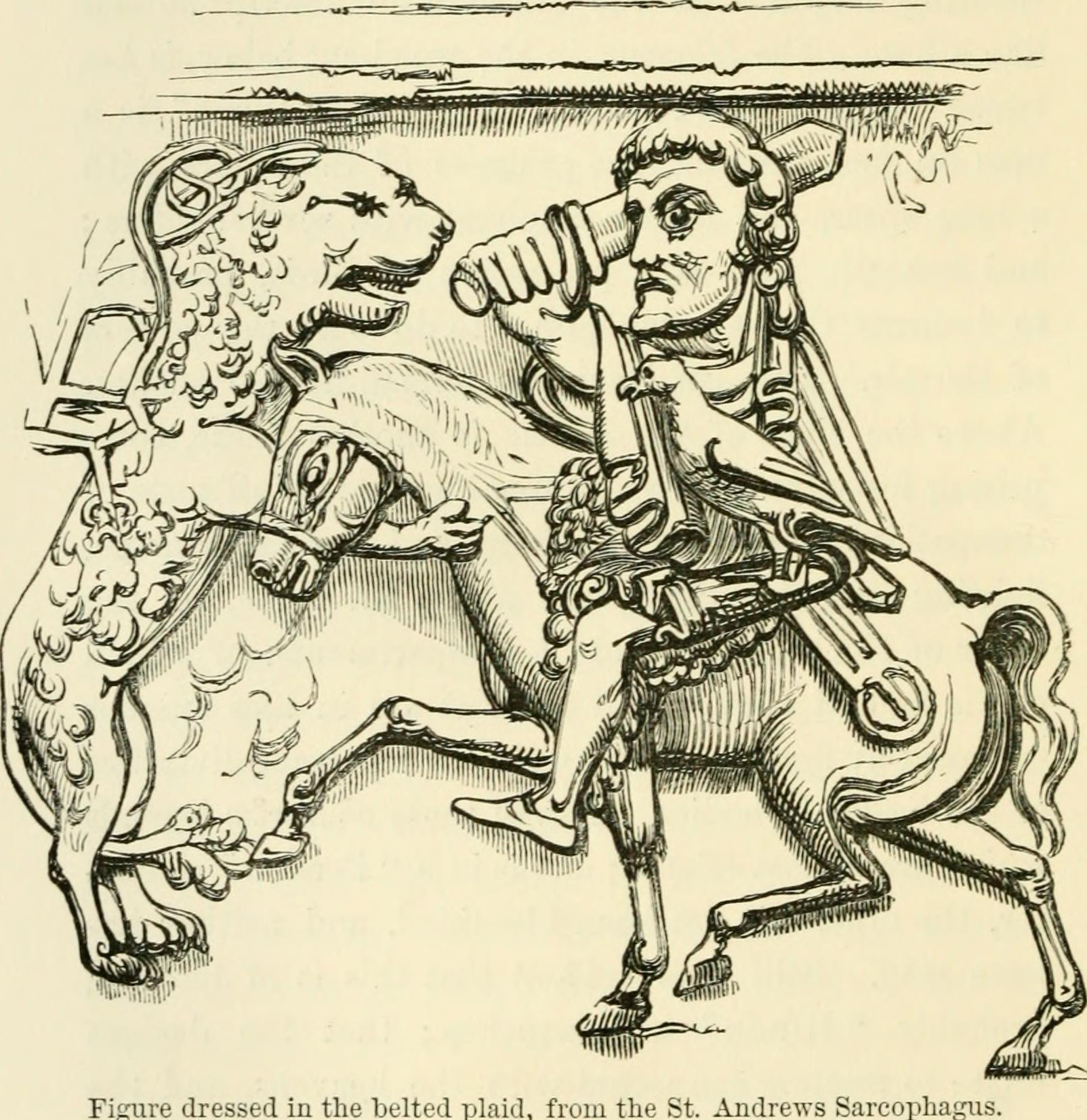 Title: Popular tales of the West Highlands : orally collected Year: 1860 (1860s) Authors: Campbell, J. F. (John Francis), 1822-1885 Subjects: Publisher: Edinburgh : Edmonston and Douglas Text Appearing Before Image: nd above all these, on the cover of the vessel, are eight compartments, of which one is figured above; and the rest are in like manner occupied by figures which appear to represent divinities or the heavenly bodies. Two of these comprise legend swhich are almost effaced; one is in a Persian character, the other has not been identified, and neither has been read. Still it is evident that this is of Eastern, probably Hindu workmanship; that the designs relate to matters connected with the heavens, and the gods; that the sun is one of these, and that the style of ornament is that which is called Celtic. Witht hese designs are animals which are associated with like designs on stones in Scotland; camels, elephants, 390 CELTIC ART. lions, horses, hawks, rams, bulls, goats, snakes, fish, dragons, and monsters. Celtic ornament then is found in the far East, and in the far West; and the foreign animals associated with Celtic ornament in Scotland are associated with a similar style of ornament on ancient Text Appearing After Image: dressed in the belted plaid, from the St. Andrews Sarcophagus. Hindu vessels. The meaning of the symbols in the latter case is sufficiently plain. It seems possible that the others may have a like signification. WEST HIGHLAND STORIES. 39f With this view, the horseman on the St Andrews Sarcophagus may have the same meaning as the horseman floured below\